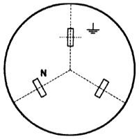 Arrangement of pins of Argentinian Plug according norm IRAM 2073